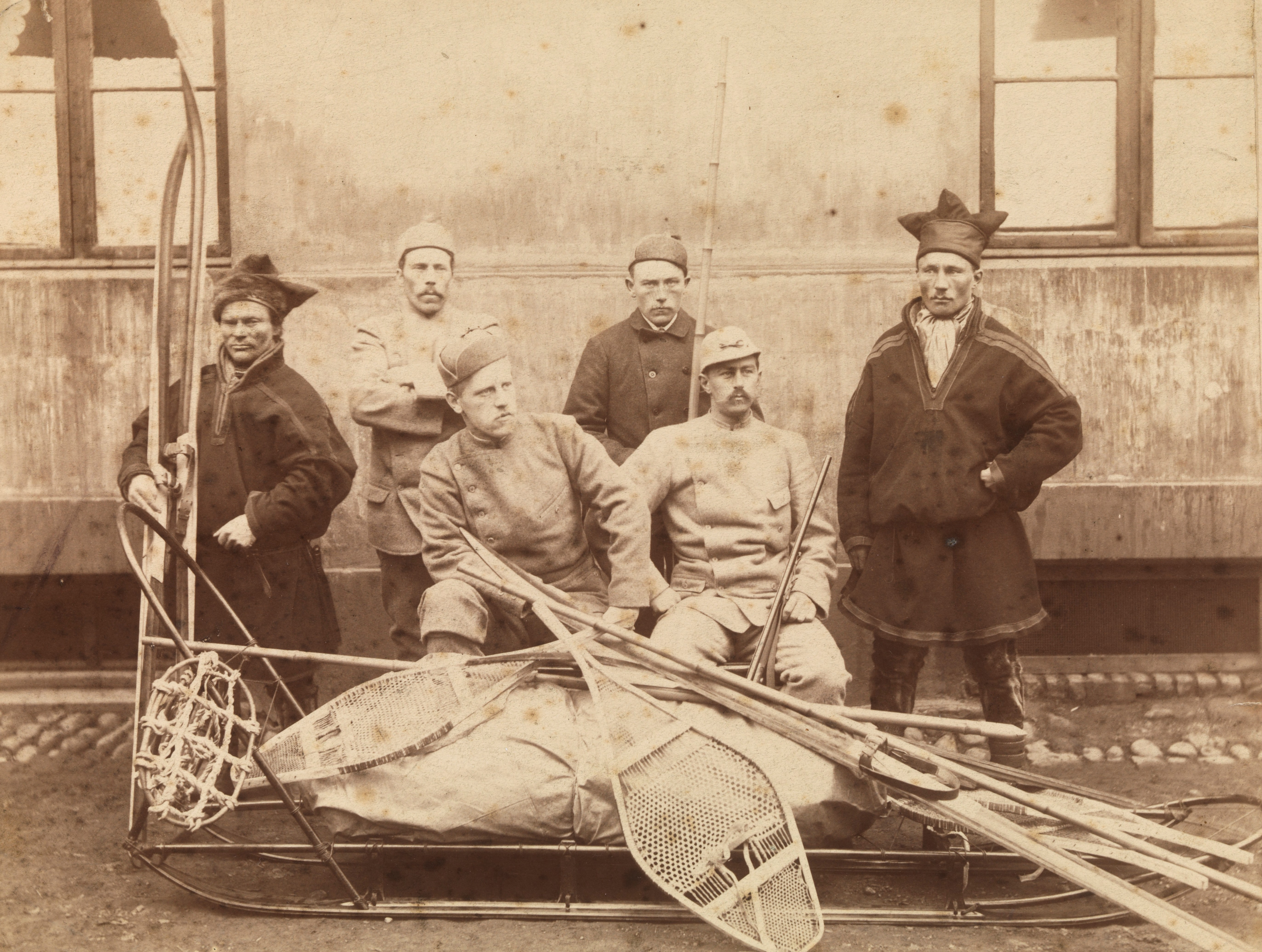 The members of the Greenland expedition before departure. Front row from the left side: Fridtjof Nansen), the expedition leader; Oluf Christian Dietrichson, lieutenant, assistant teacher of physical education and the use of arms. In the back row from the left: Ole (Nielsen) Ravna, Norwegian Sami, Otto Neumann Knoph Sverdrup, captain, Kristian Kristiansen (Trana), forest worker, Samuel (Johansen) Balto), Norwegian Sami. One of the pictures from the expedition to Greenland in the period July 1888 to May 1889. Fridtjof Nansen together with 5 other Norwegian participants crossed Greenland in the course of a 42-day skiing trip from the east to the west coast.